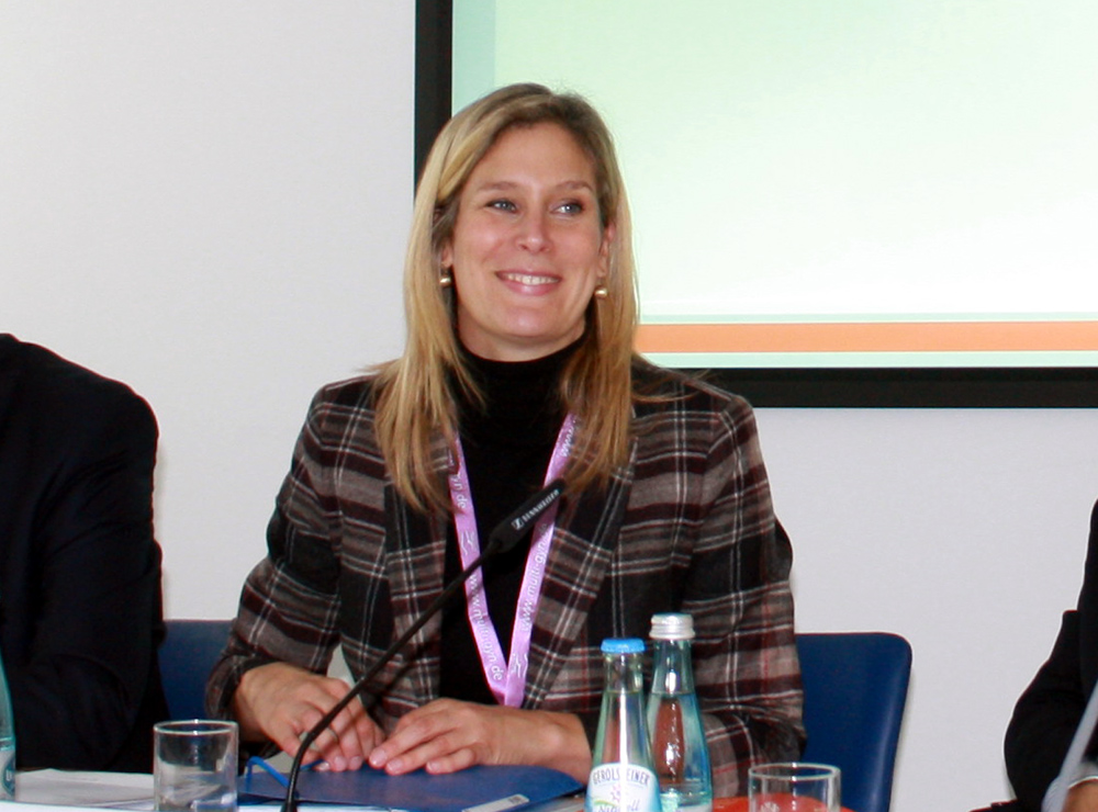 Silvana Koch-Mehrin, German politician (FDP)